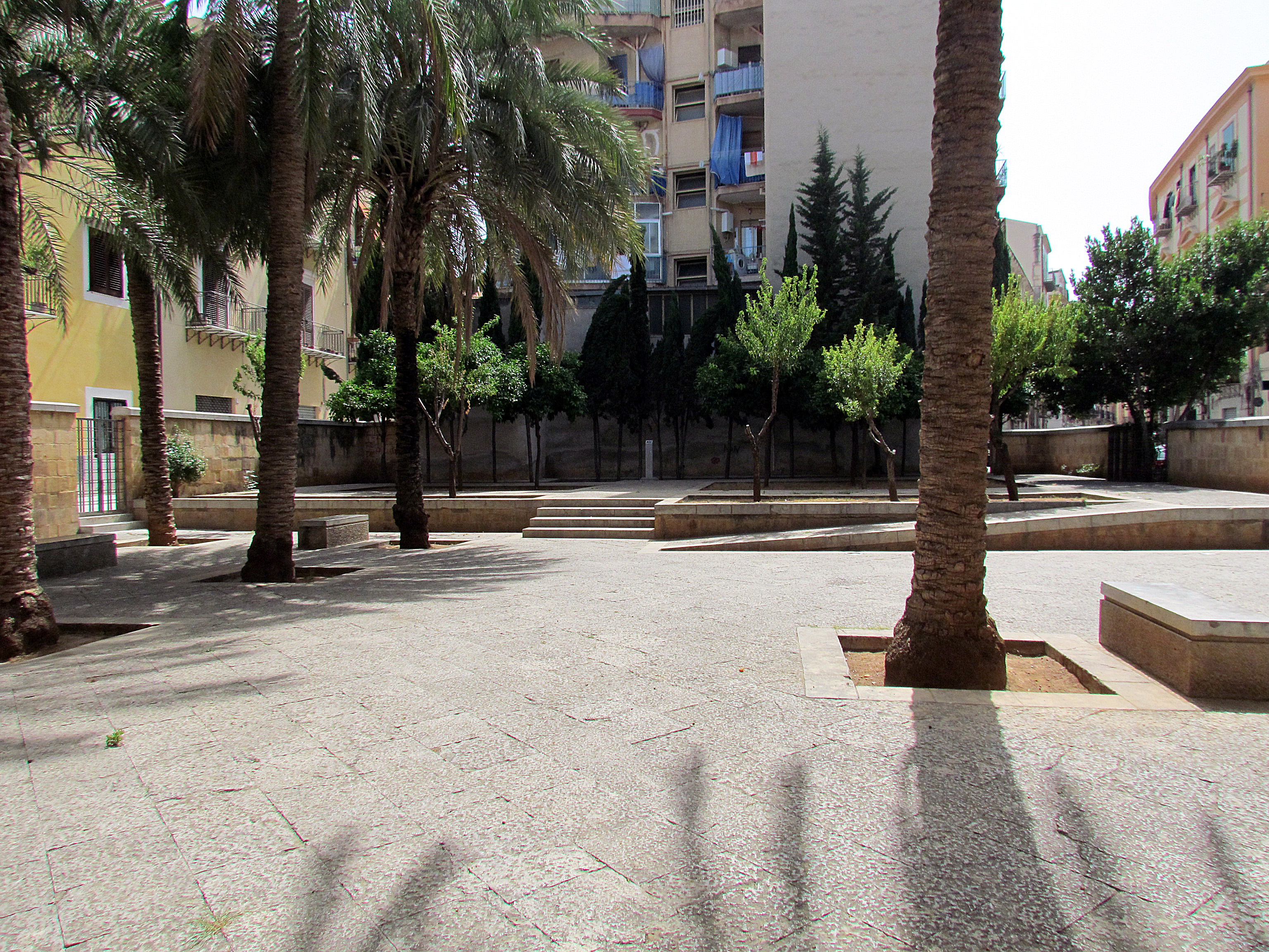 Garden of the Righteous Palermo